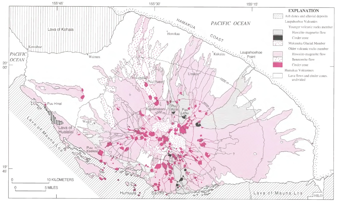 A geological map of Mauna Kea, Hawaii, focussing on the overlying Laupahoehoe volcanics.